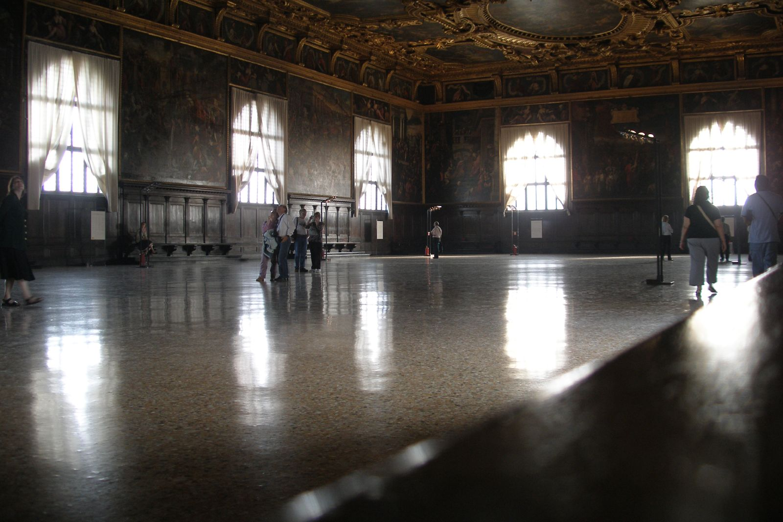 see abovesee above